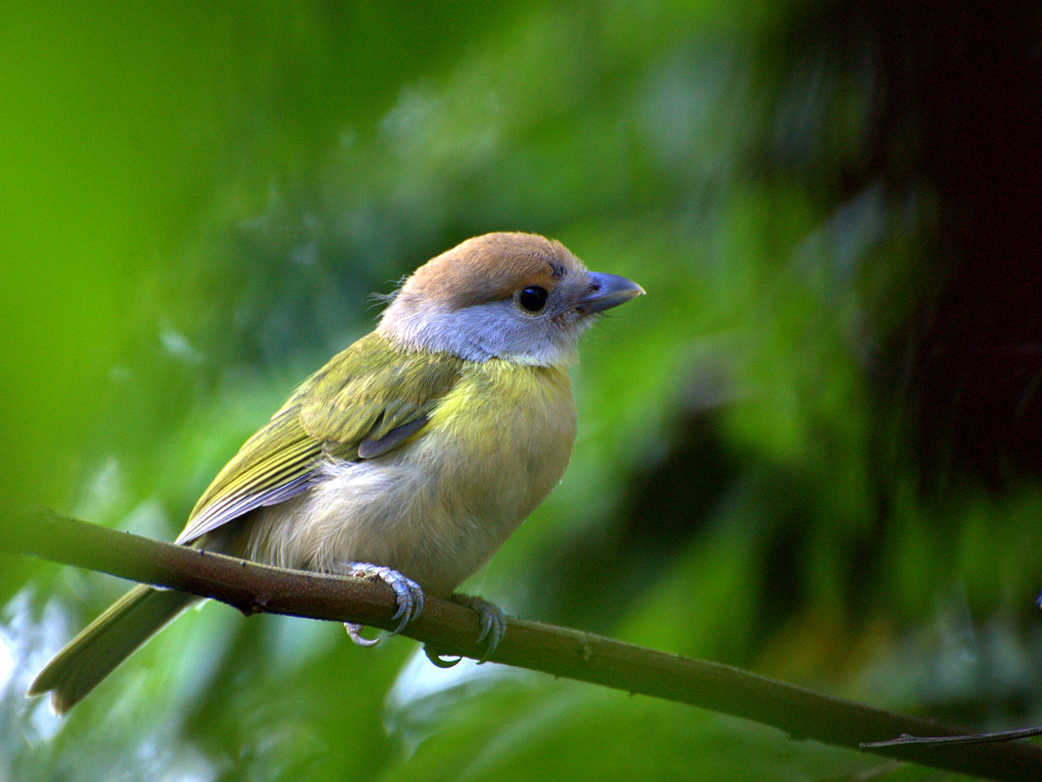 Sub-adult Rufous-browed Peppershrike, Cyclarhis gujanensis at Horto Florestal de São Paulo, Brazil.